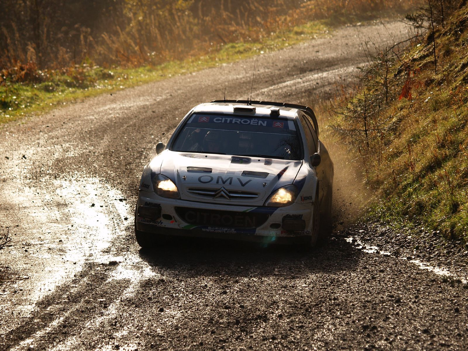 Manfred Stohl driving his Citroën Xsara WRC during 2007 Wales Rally GB.